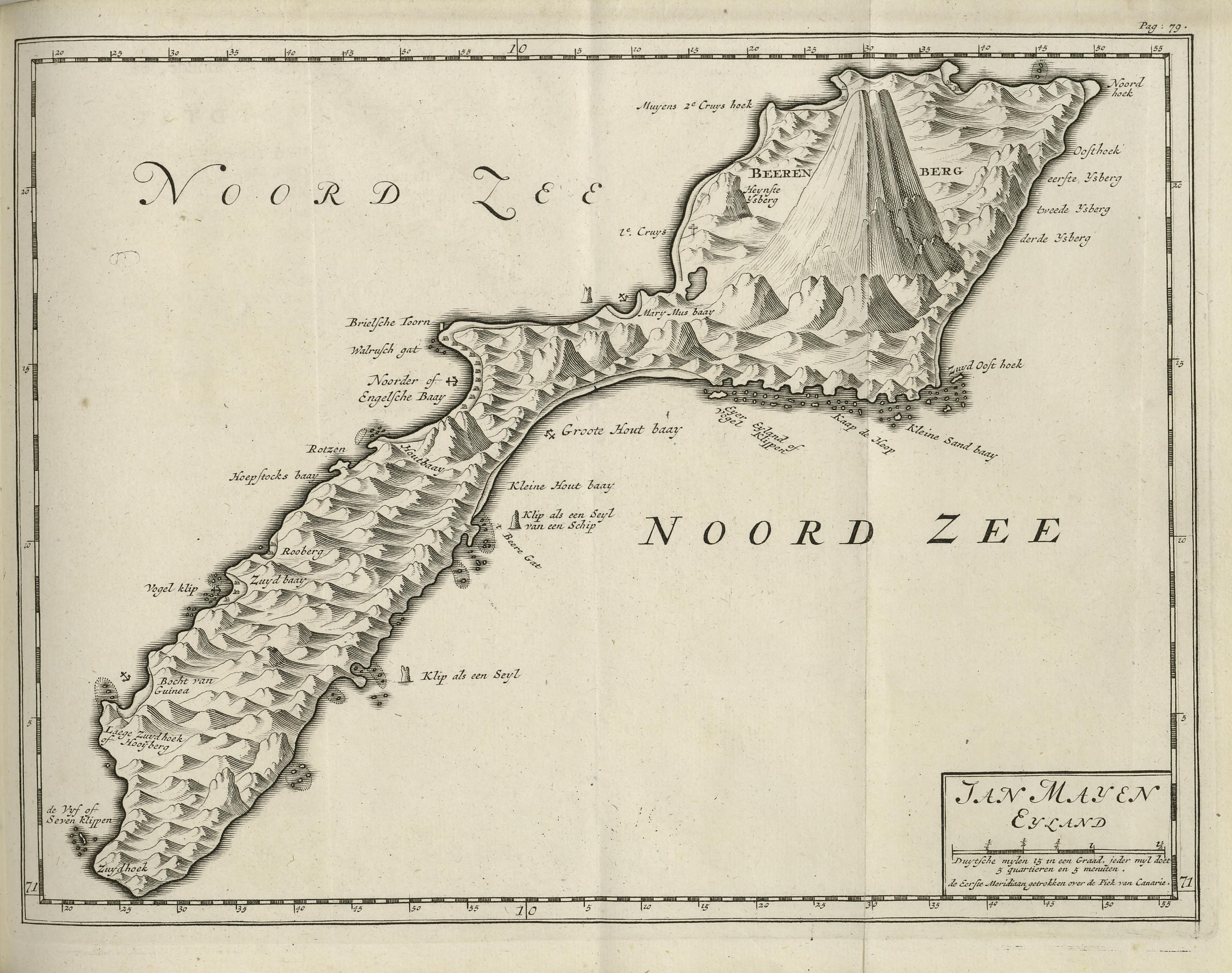 Illustration from the book "C.G. Zorgdragers Bloeyende opkomst der aloude en hedendaagsche Groenlandsche visschery" by Zorgdrager, Cornelis Gijsbertsz and published by By Joannes Oosterwyk (nl, 1720)